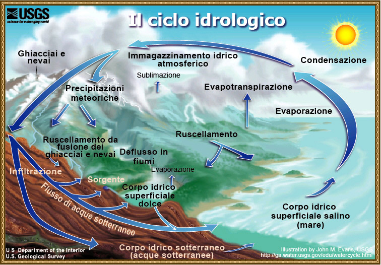 Water-Cycle Diagram (Italian)